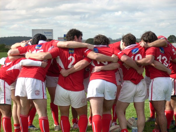 PSG rugby prematch.